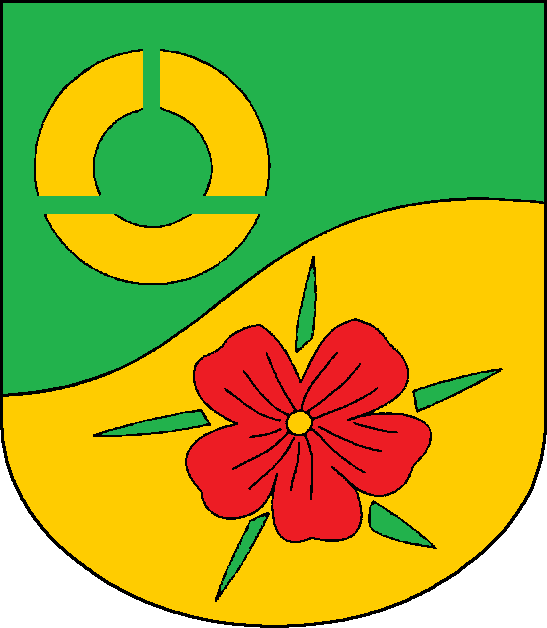 Coat of arms of the municipality Kankelau in Schleswig-Holstein, Germany.